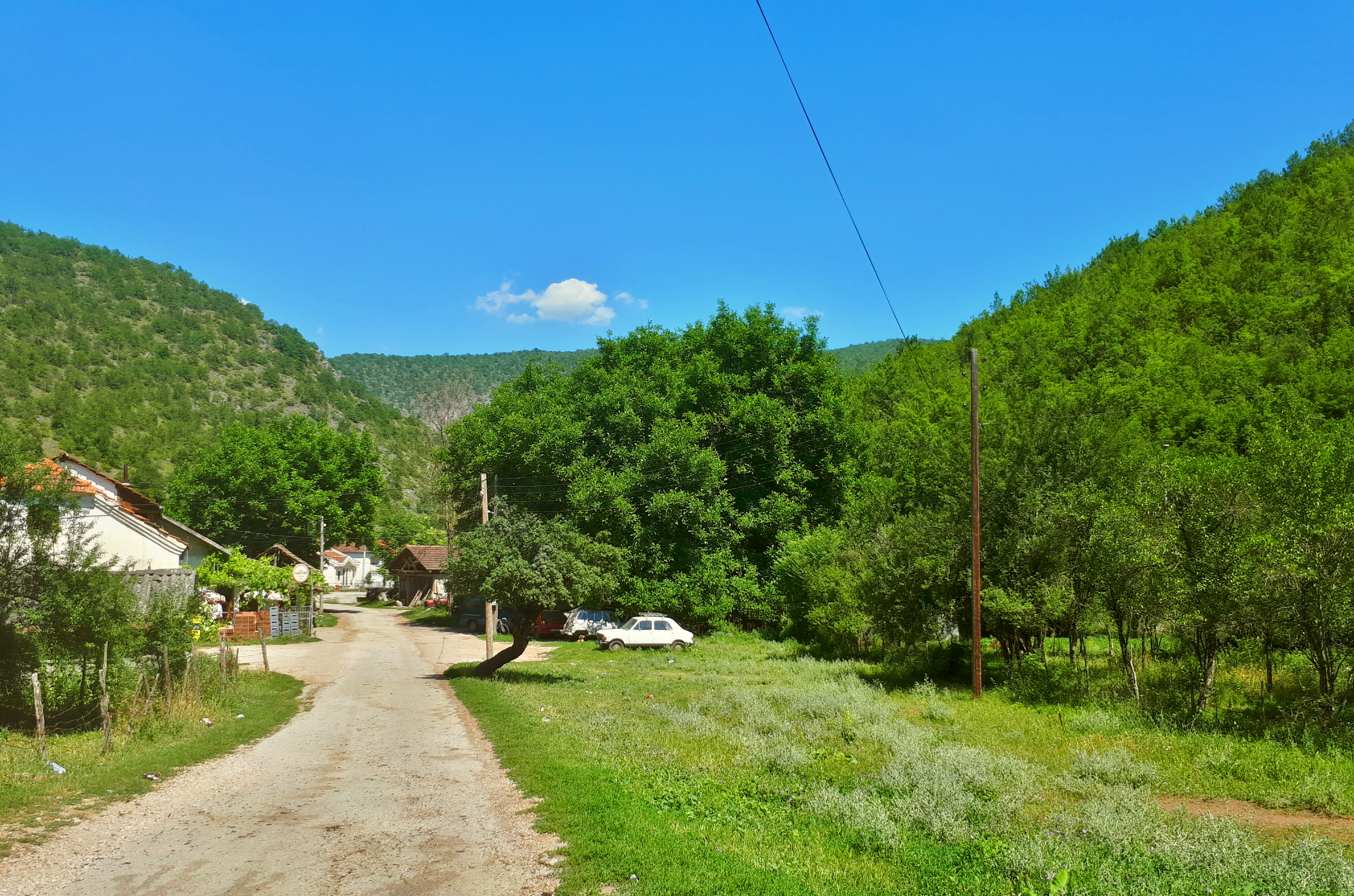 View of the village Dolni Manastirec